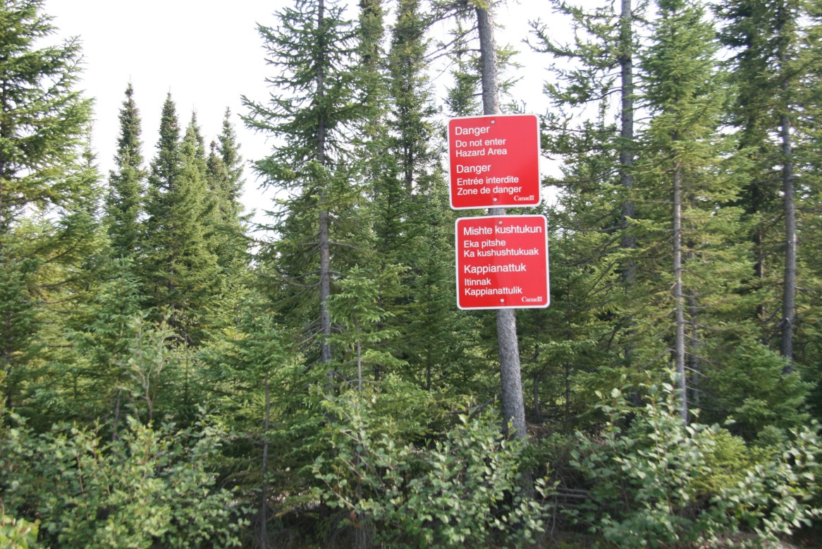 warning sign in forest around CFB Goose Bay